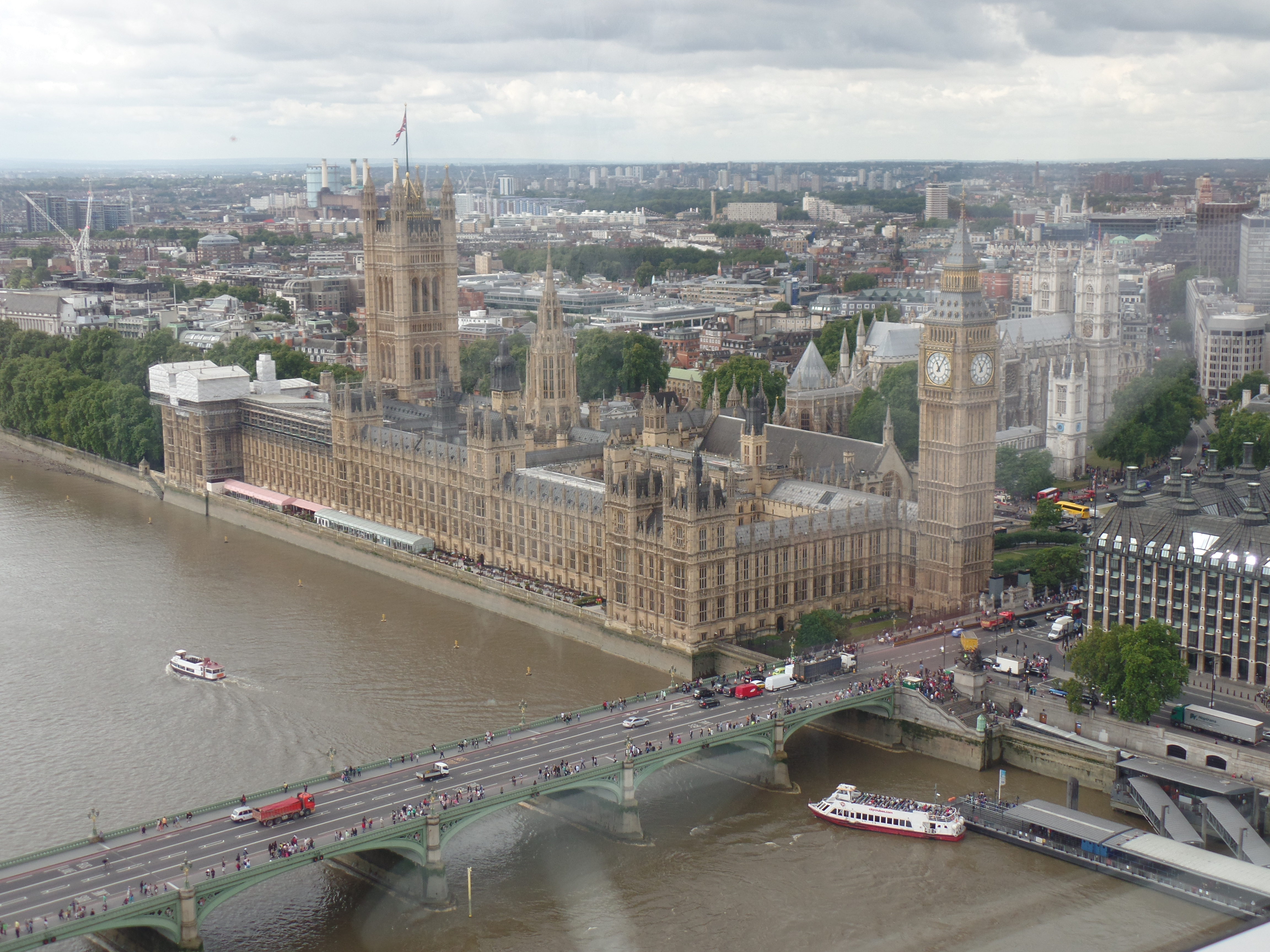 A wide shot of the Palace of Westminster from the London Eye, including Westminster Bridge and the Thames.